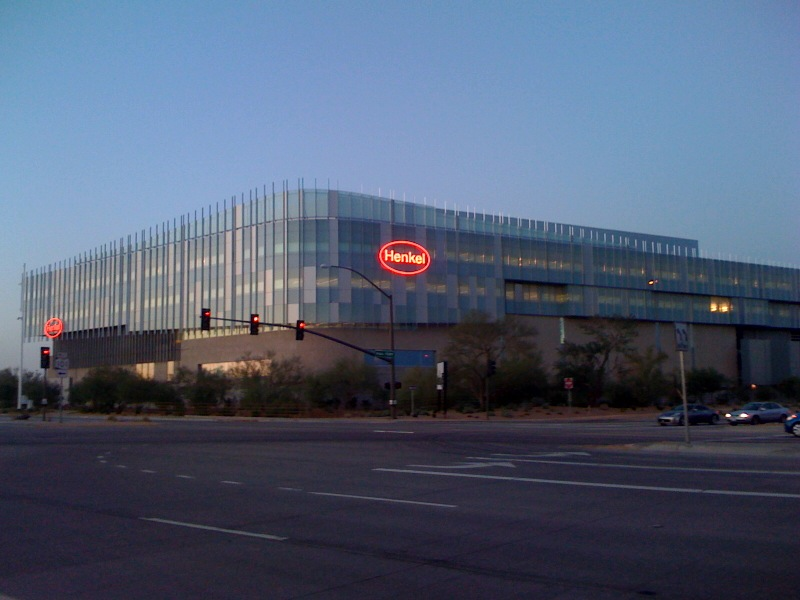 Photo of the south west side of the Henkel North American Headquarters building in Scottsdale, Arizona